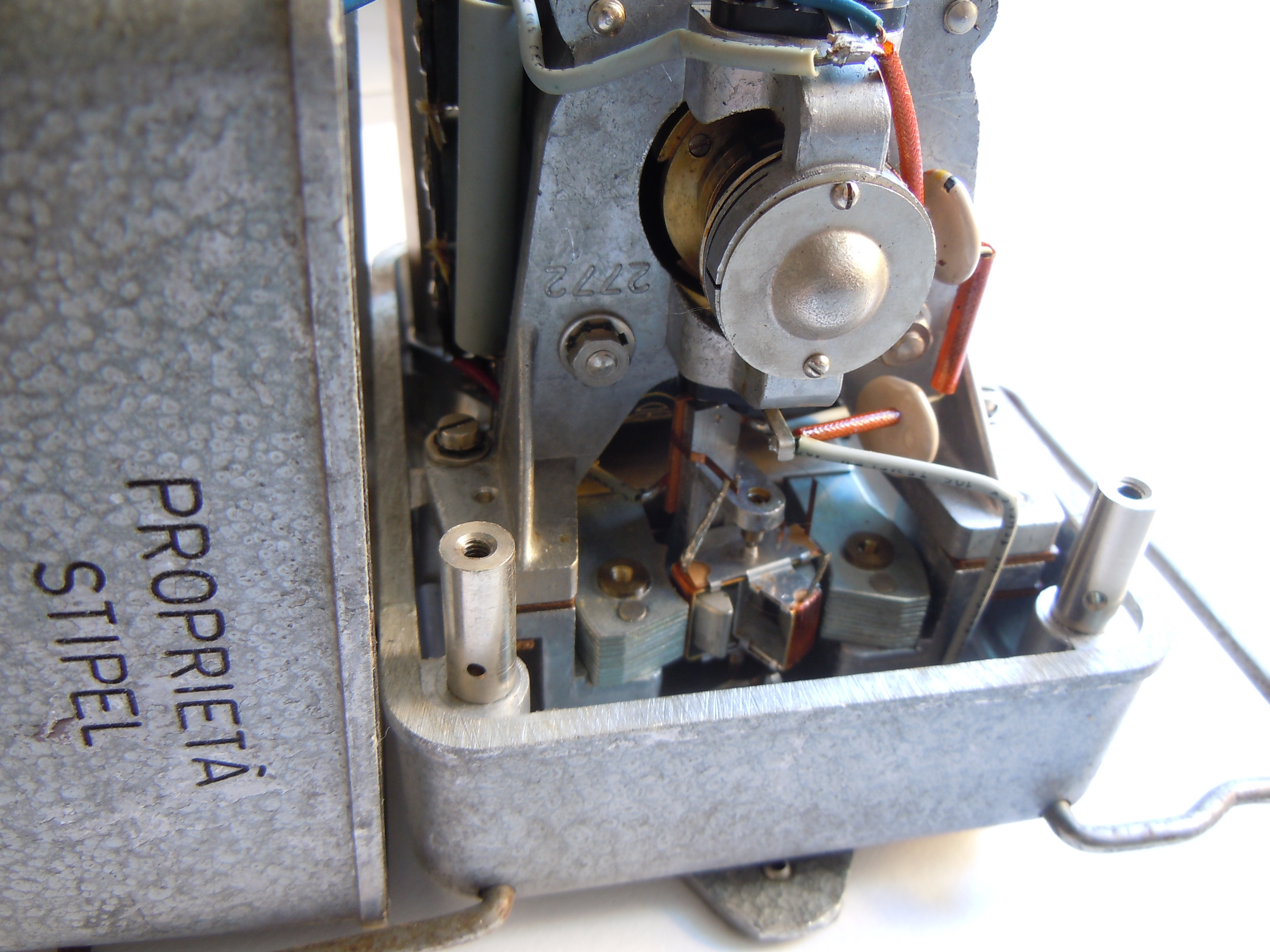 insulation meter that generates 250V (open).